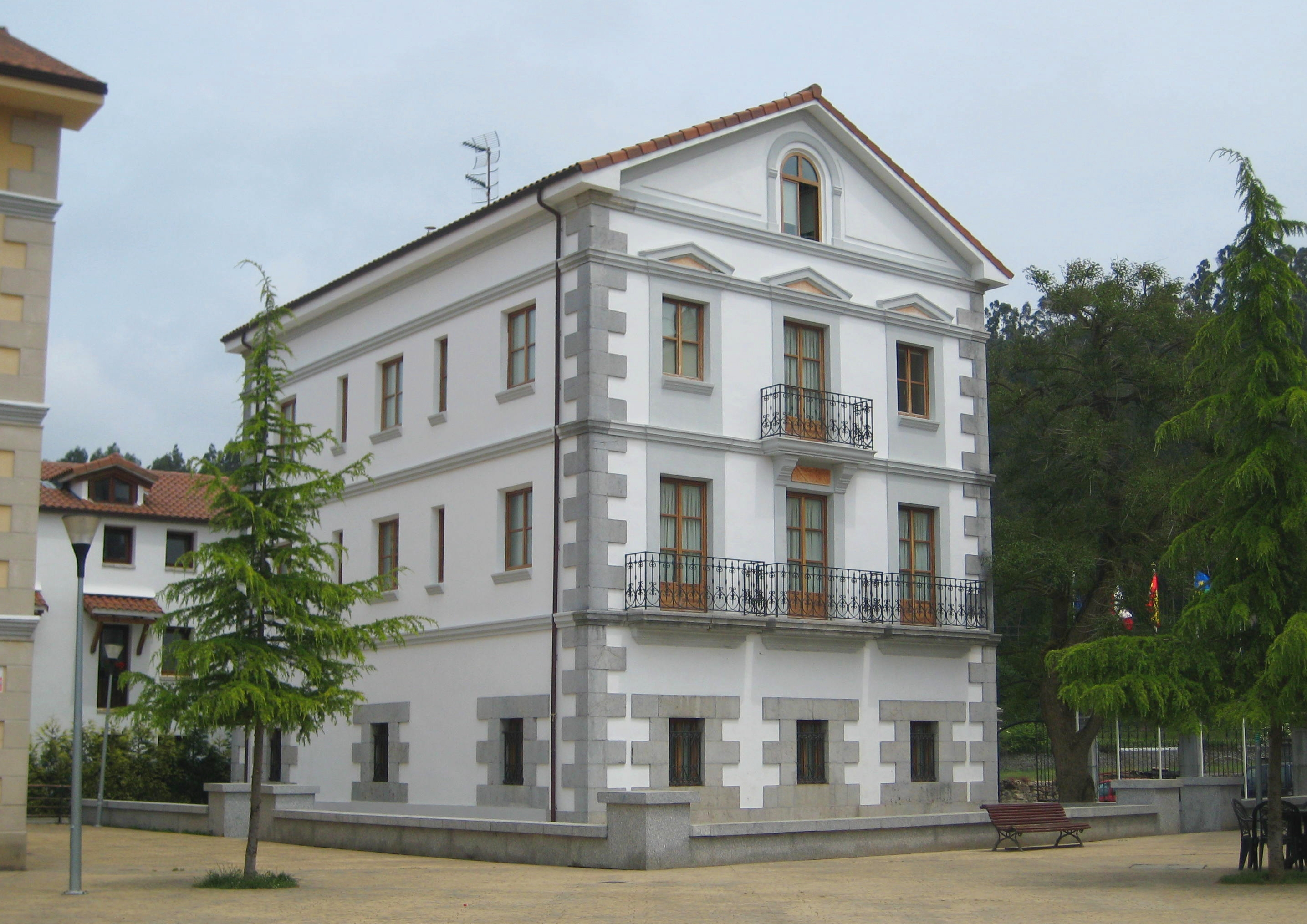 New building for the town hall of Guriezo at the village of El Puente, Cantabria, Spain